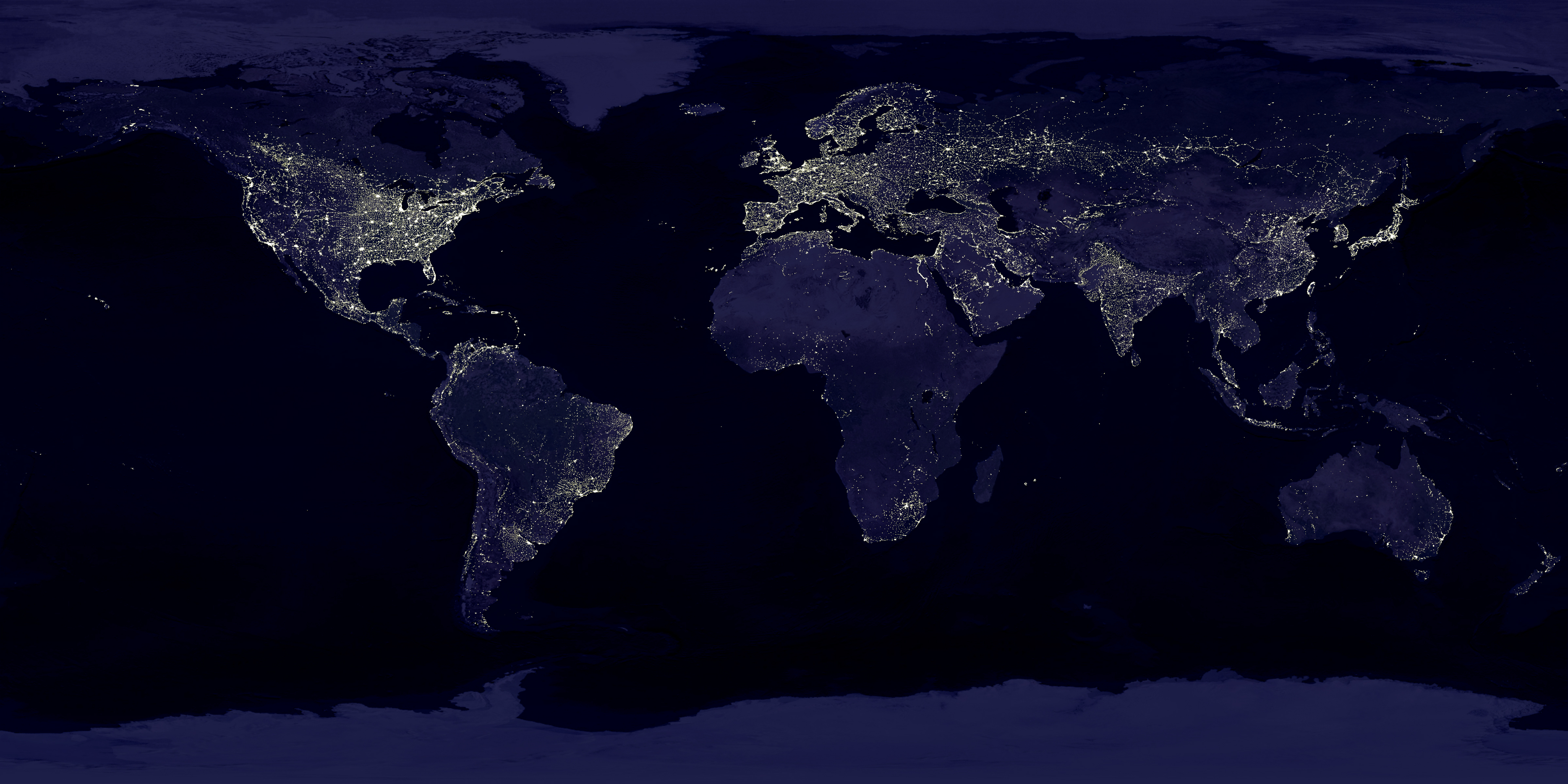 This image of Earth’s city lights was created with data from the Defense Meteorological Satellite Program (DMSP) Operational Linescan System (OLS). Originally designed to view clouds by moonlight, the OLS is also used to map the locations of permanent lights on the Earth’s surface. The brightest areas of the Earth are the most urbanized, but not necessarily the most populated. (Compare western Europe with China and India.) Cities tend to grow along coastlines and transportation networks. Even without the underlying map, the outlines of many continents would still be visible. The United States interstate highway system appears as a lattice connecting the brighter dots of city centers. In Russia, the Trans-Siberian railroad is a thin line stretching from Moscow through the center of Asia to Vladivostok. The Nile River, from the Aswan Dam to the Mediterranean Sea, is another bright thread through an otherwise dark region. Even more than 100 years after the invention of the electric light, some regions remain thinly populated and unlit. Antarctica is entirely dark. The interior jungles of Africa and South America are mostly dark, but lights are beginning to appear there. Deserts in Africa, Arabia, Australia, Mongolia, and the United States are poorly lit as well (except along the coast), along with the boreal forests of Canada and Russia, and the great mountains of the Himalaya.